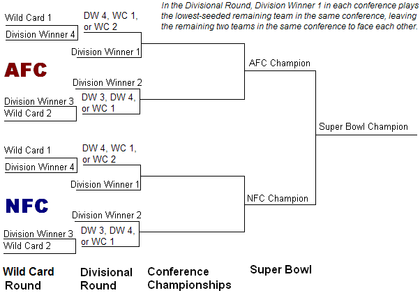 Created Jayron32